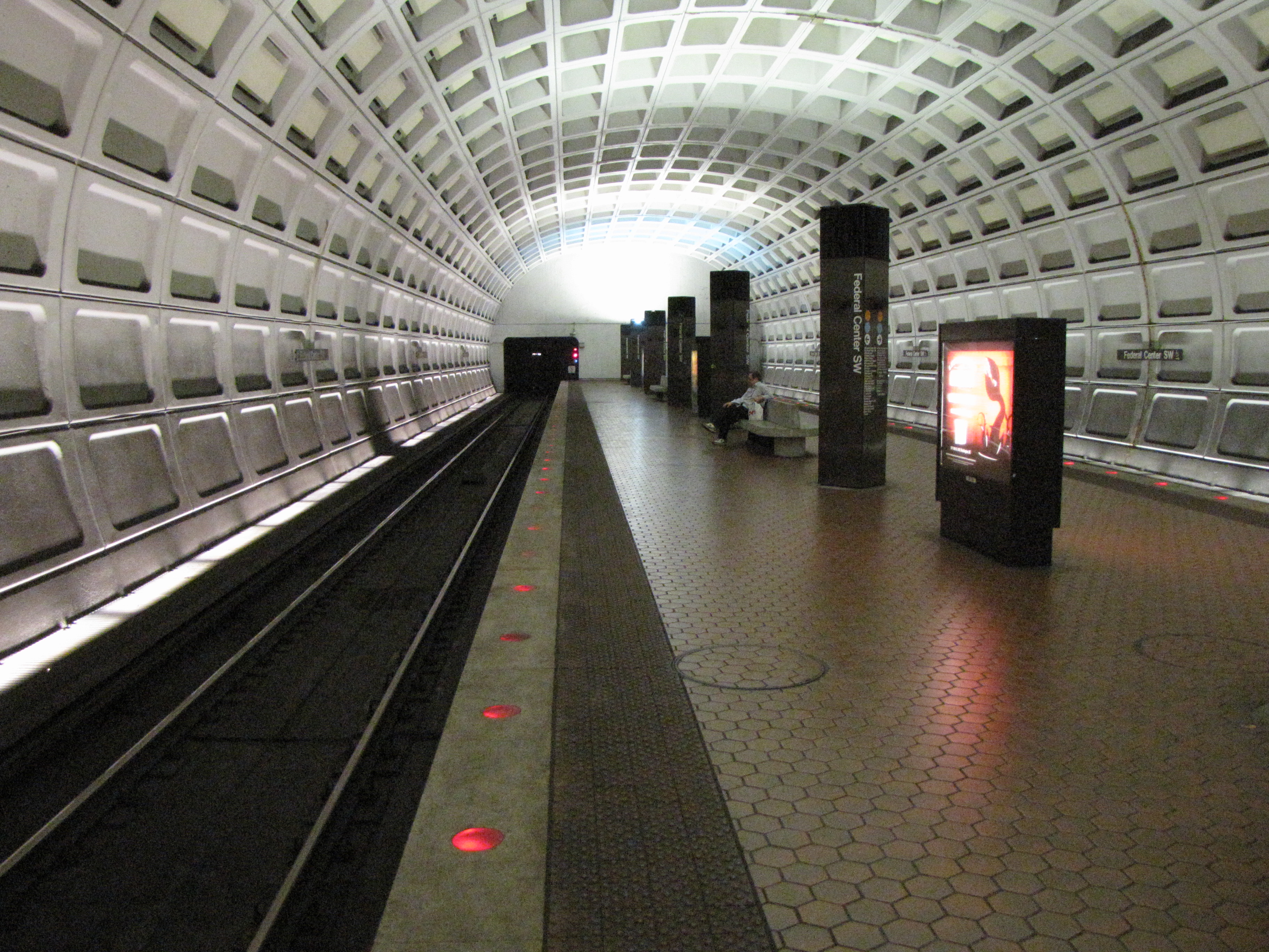 Outbound end of Federal Center SW station.